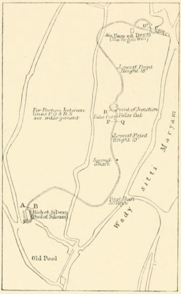 Siloam Tunnel sketch 1884, from "The survey of Western Palestine"